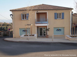 Seat of links between local authorities of Luberon Oriental in Villeneuve, France